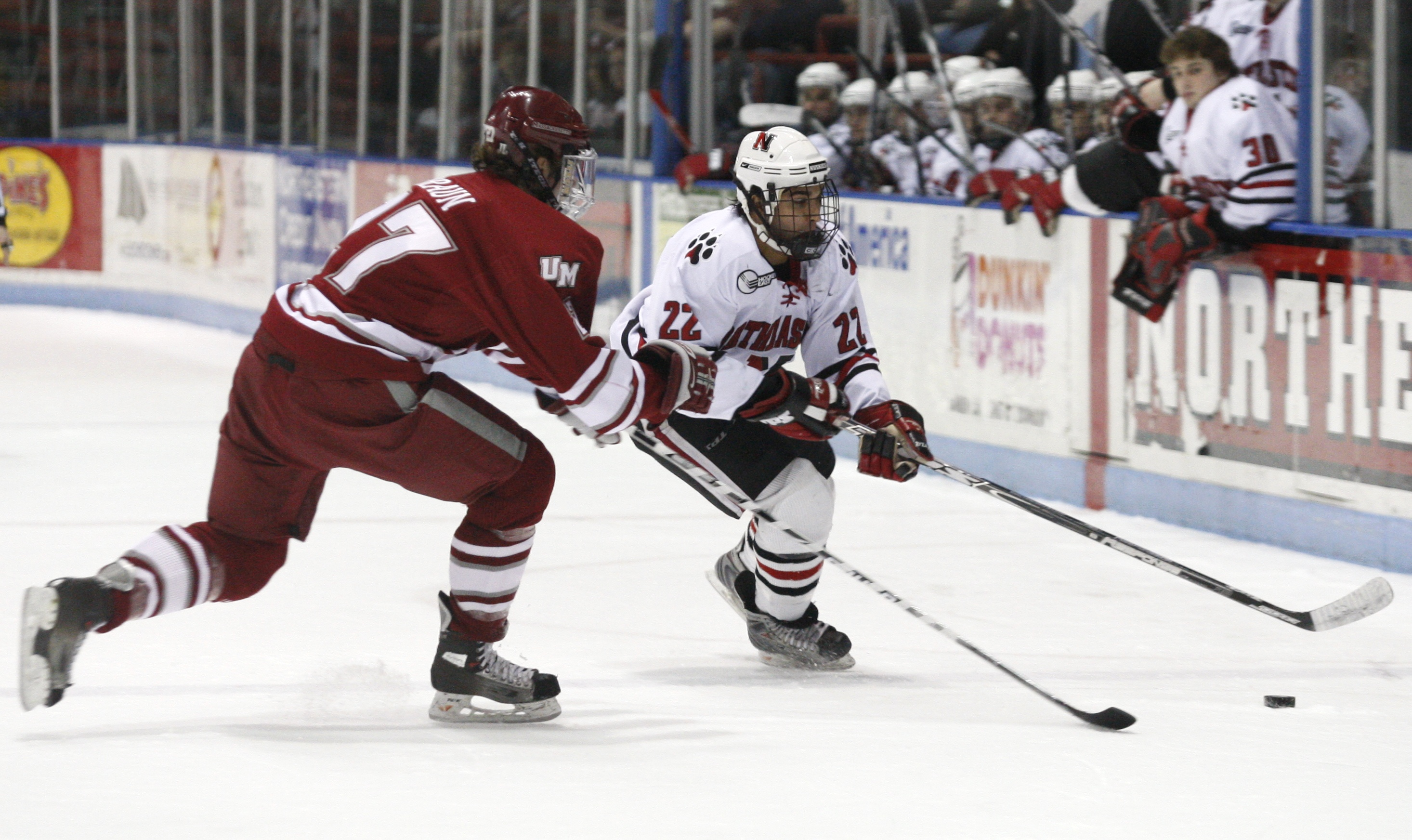 The University of Massachusetts Amherst takes on the Northeastern Huskies at Matthews Arena in Boston, Massachusetts